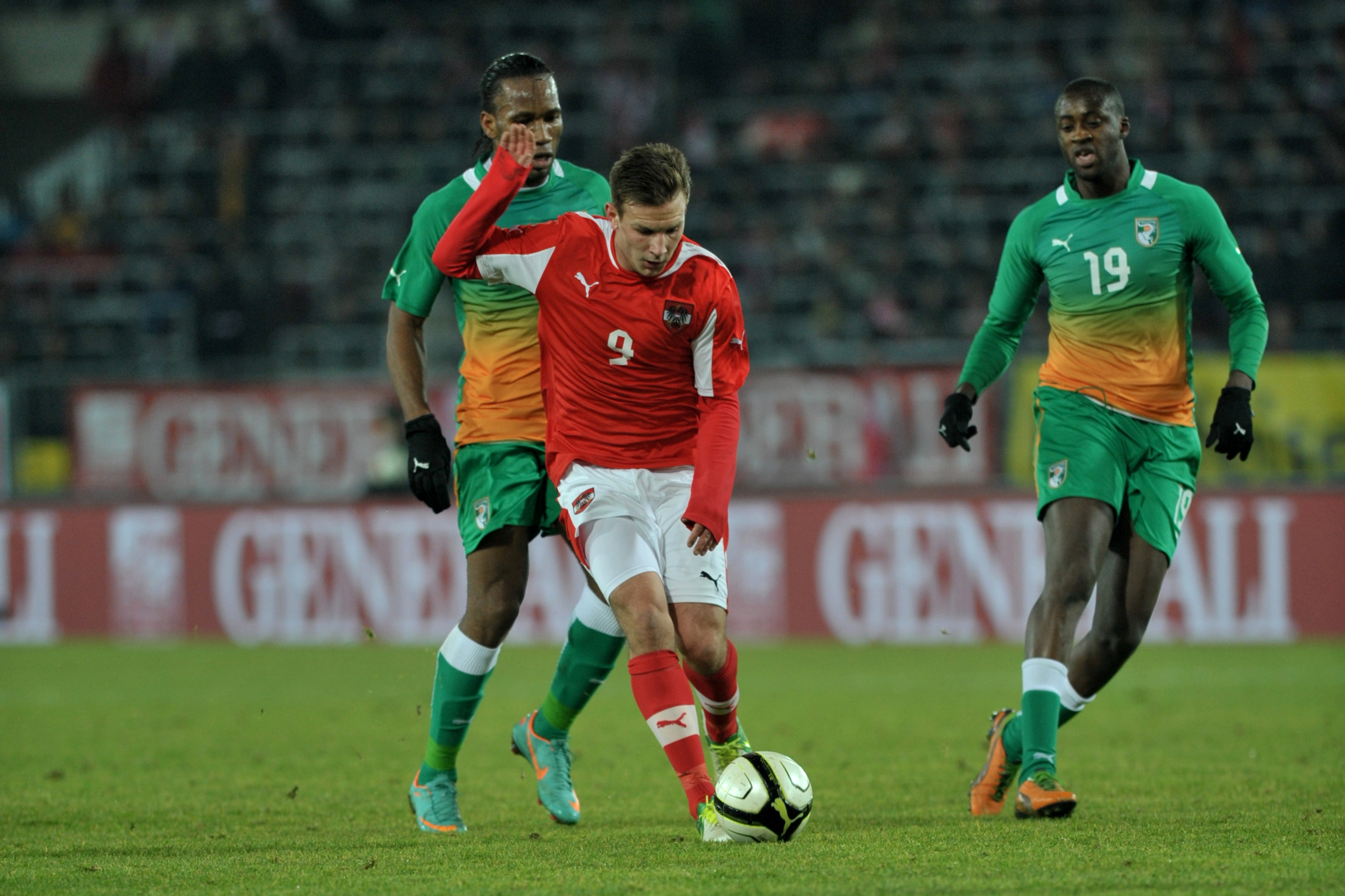 ÖFB freundschaftliches Länderspiel - Österreich vs Elfenbeinküste am 14. November 2012 The making of this work was supported by Wikimedia Austria. For other files made with the support of Wikimedia Austria, please see the category Supported by Wikimedia Österreich. 9: Andreas Weimann Didier Drogba Yaya Toure